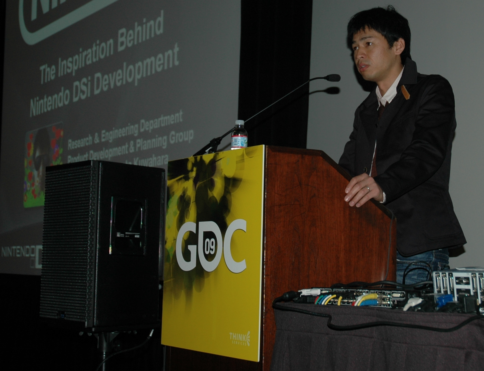 Nintendo DSi hardware group's Project Leader Masato Kuwahara discusses the handheld's creation at the 2009 Game Developers Conference.[1]